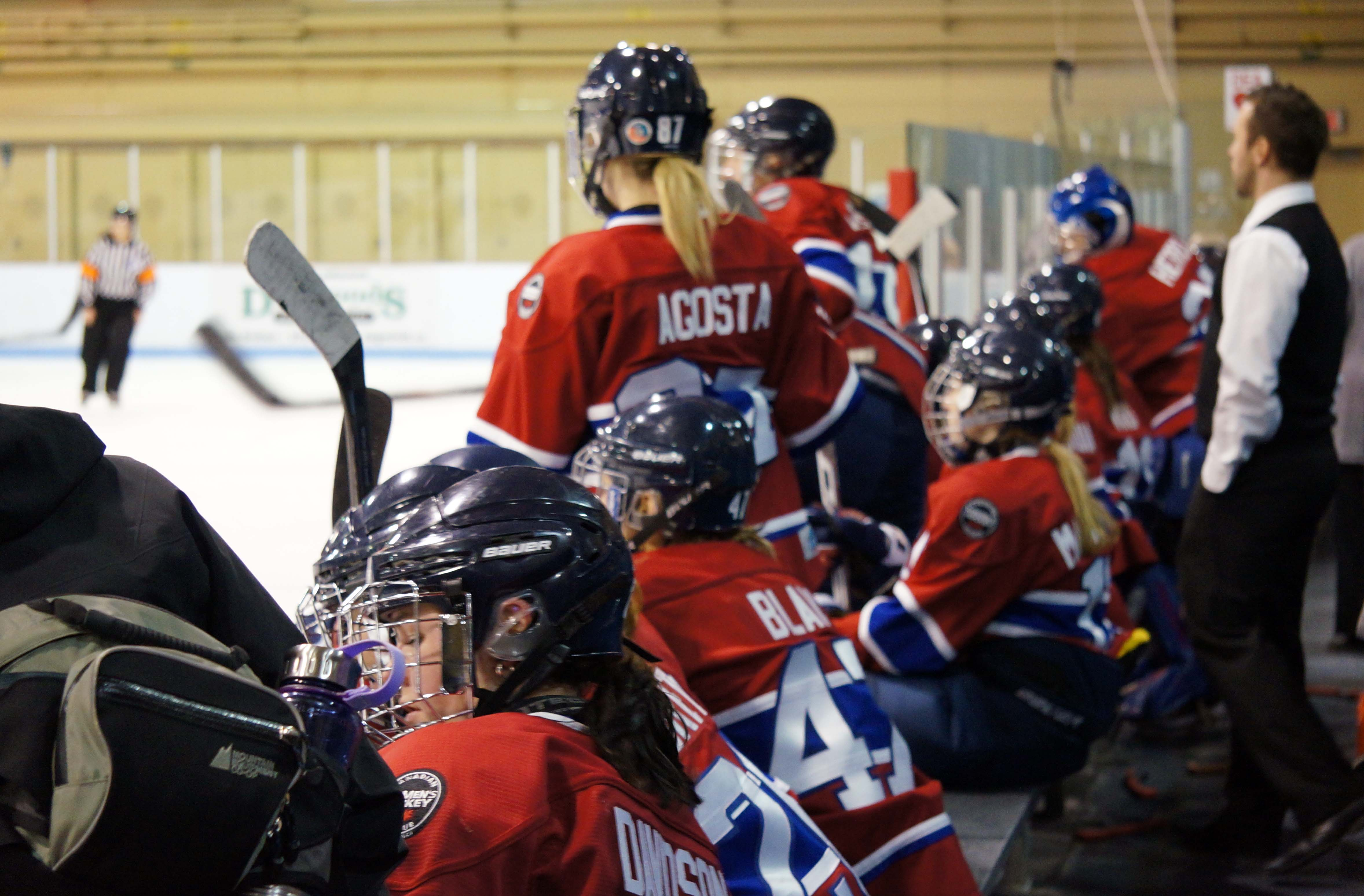 Meghan Agosta , Forward Montreal Stars